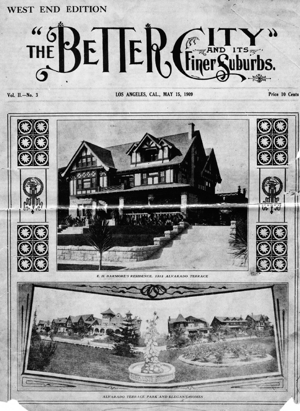 1909 cover of The Better City magazine, about the Alvarado Terrace district. From Los Angeles Public LIbrary collections [1]